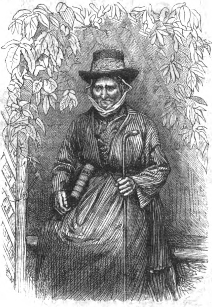 Mary Jones (1784–1864), who became famous for walking to Bala as a young girl to buy a bible. Illustration from 'Pages for the young – A little seed and a great tree – Charles y Bala', in 'The Sunday at home: a family magazine for Sabbath reading', No. 1284, page 784, published in London by The Religious Tract Society. Captioned 'From a photograph'.